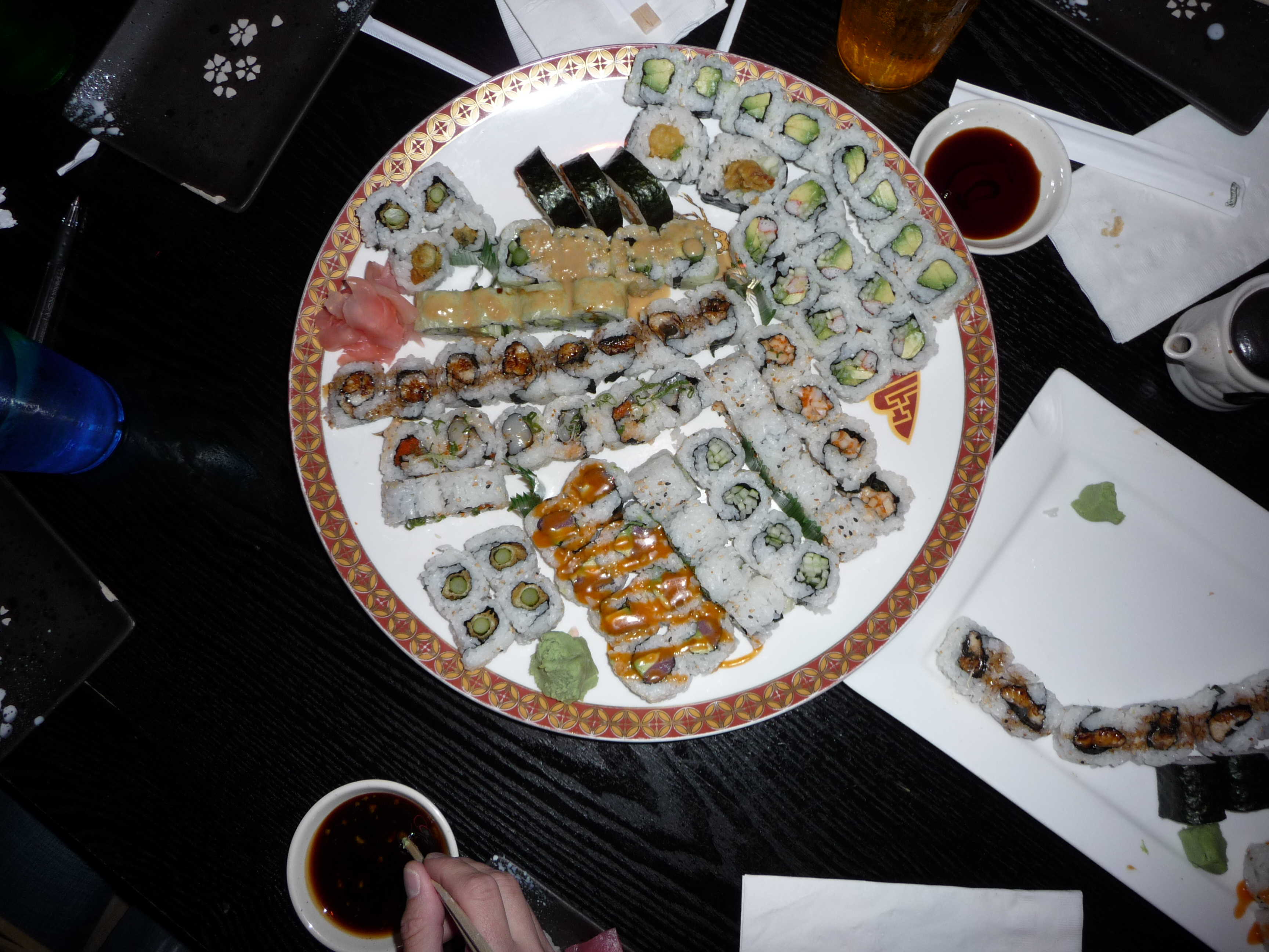 Delicious platter of sushi rolls.